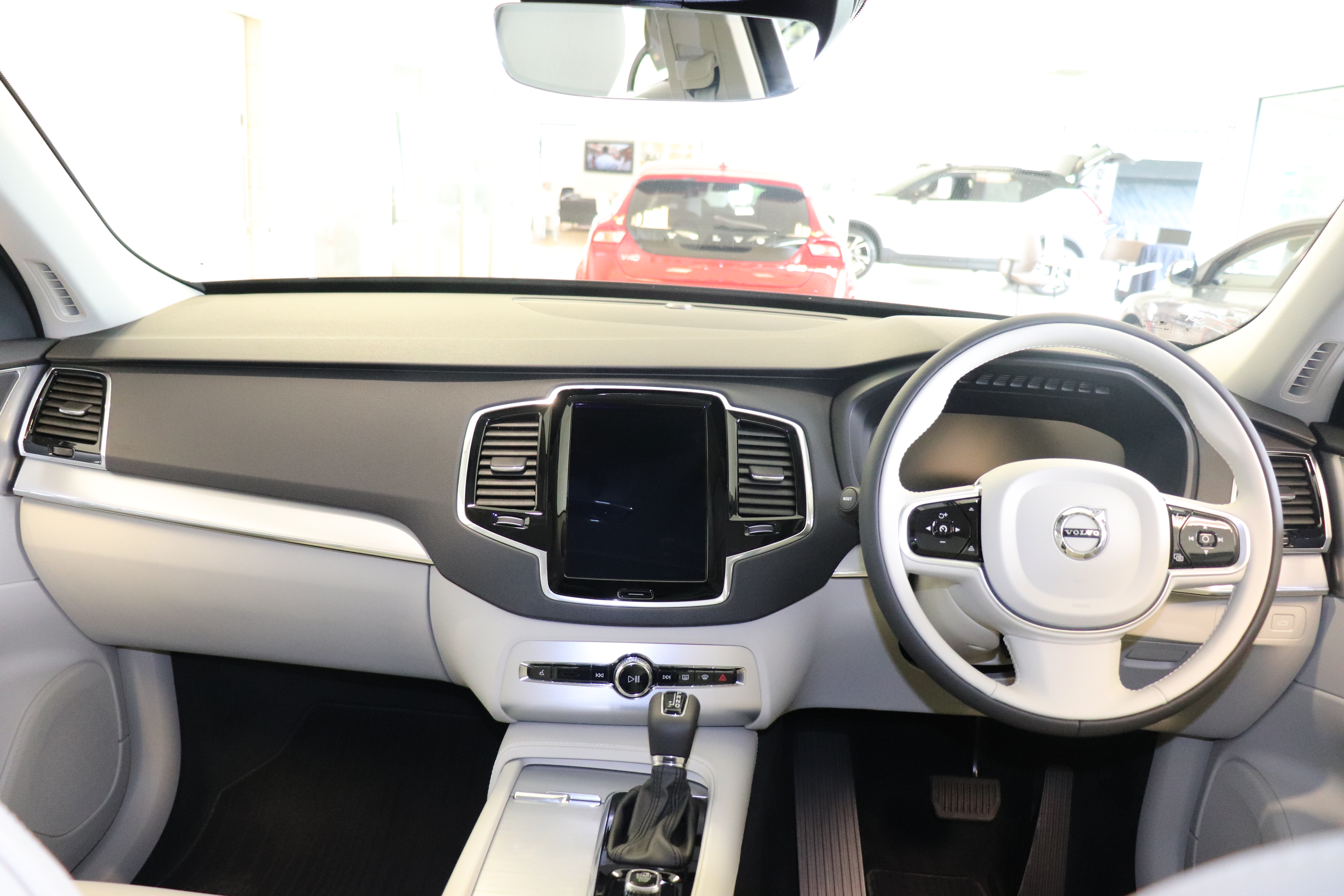 2018 Volvo XC90 D5 AWD Interior Taken in Syther Volvo Warwick, Leamington Spa